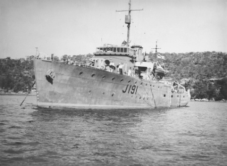 AWM Caption: PORT BOW VIEW OF THE CORVETTE HMAS BROOME (J191) AT ANCHOR. THE BROOME IS FITTED WITH A 12 POUNDER AA GUN FORWARD. NOTE THE 20 MM OERLIKON AA GUN IN THE BRIDGE WING. THE BOAT BOOM HAS BEEN RIGGED. She was sold to the Turkish Navy in 1946 and renamed Alanya.